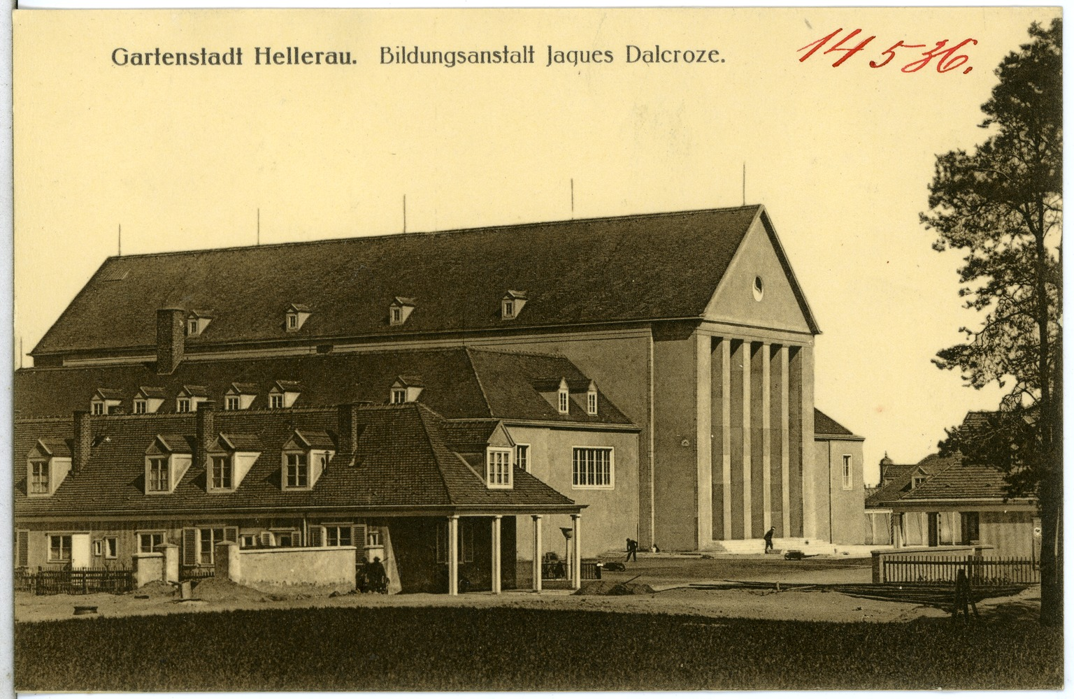 This postcard is from publisher Brück & Sohn in Meißen ( This postcard has a unique number 14536 and is available in a higher resolution at the publisher. This images was uploaded in a cooperation project between Wikipedians and the publisher.